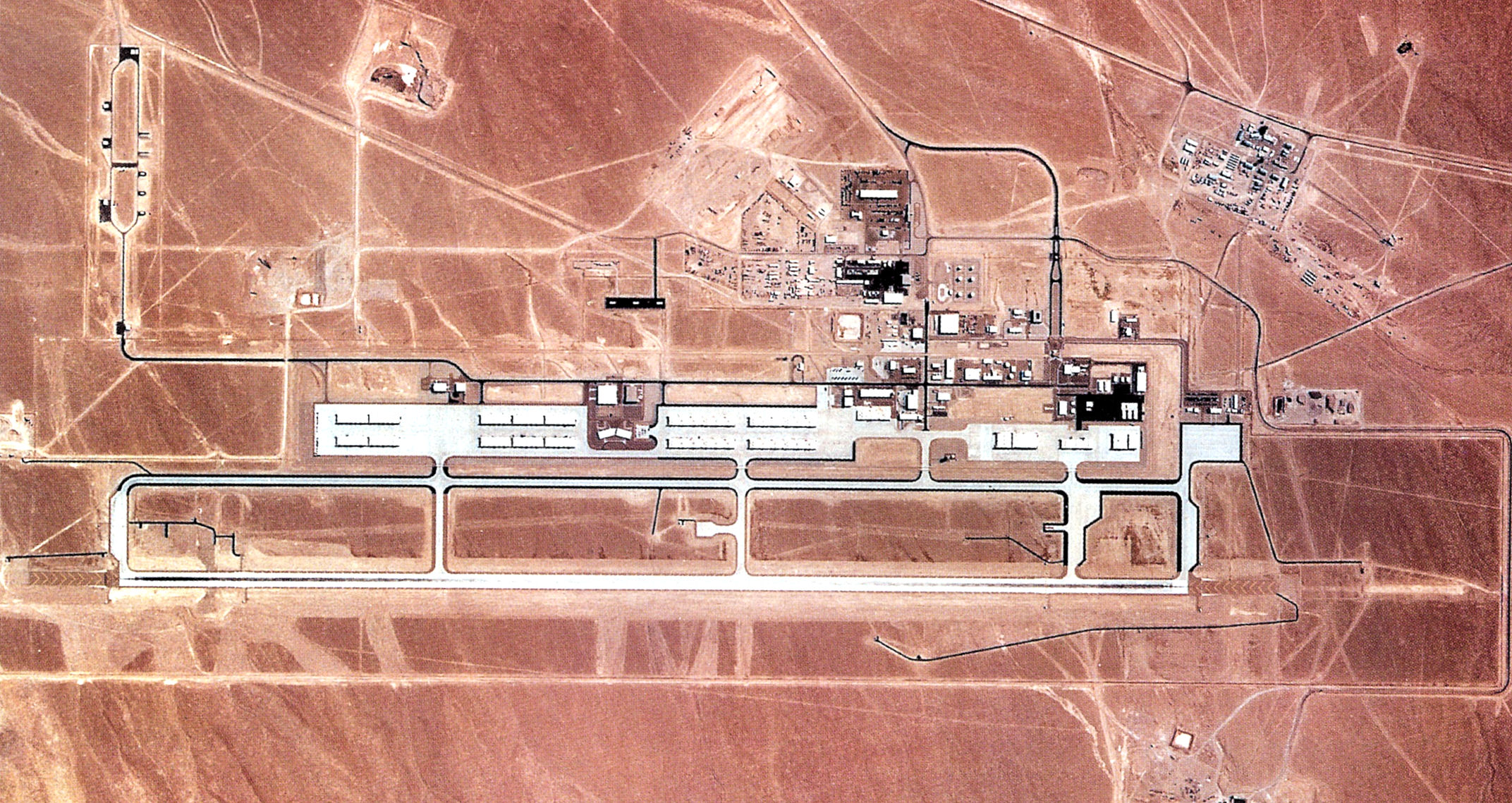 Tonopah Test Range Airport, 1990, when the USAF 37th Tactical Fighter Wing was stationed at the airport, note the F-117A hangars. Today, these hangars are used for long term storage of the Nighthawk stealth fighter